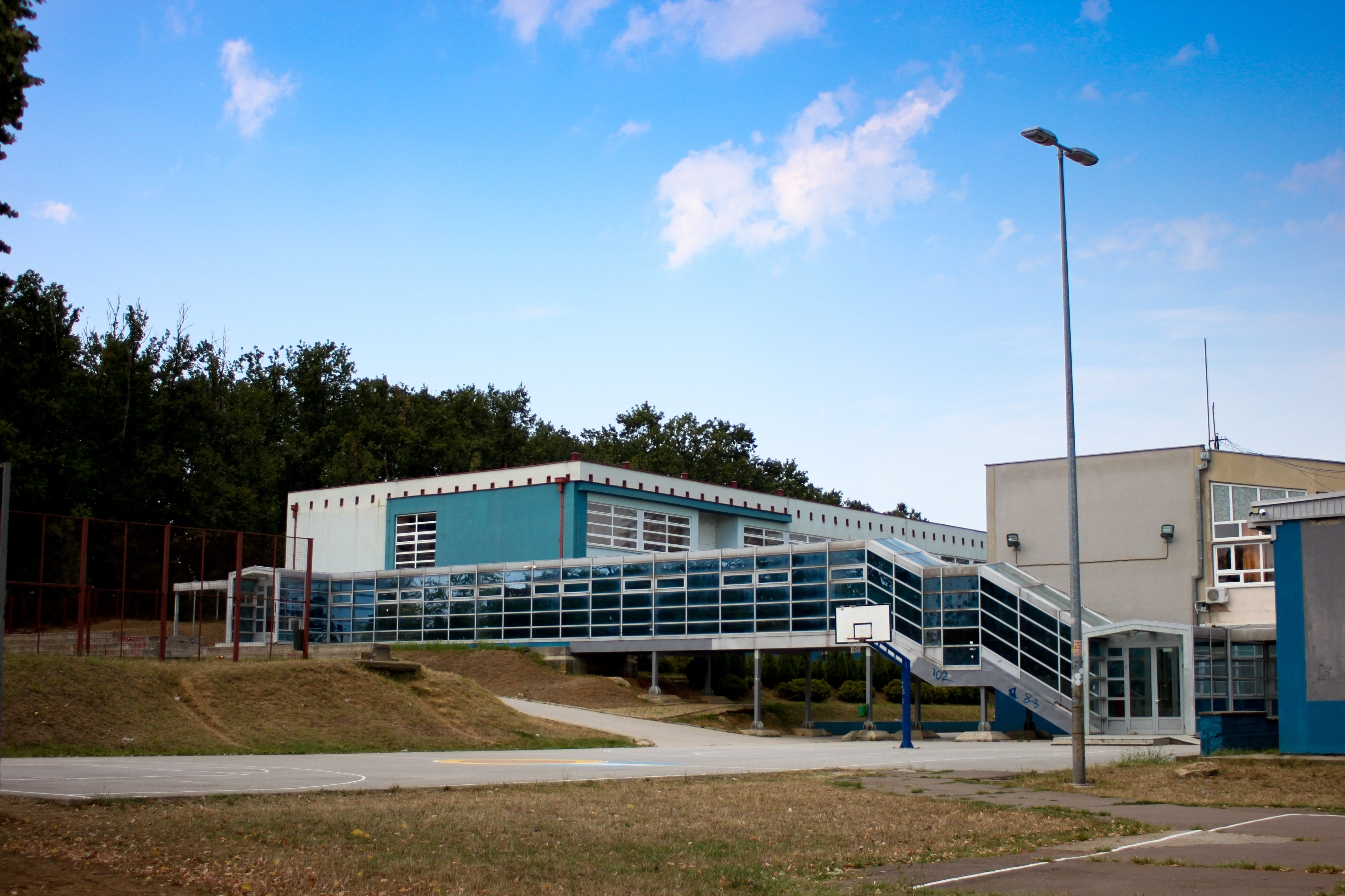 Osnovna skola "Knez Sima Markovic" Barajevo